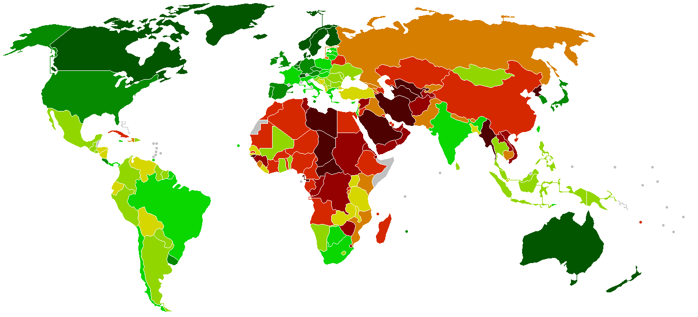 A map of the world showing the results of The Economist's Democracy Index survey for 2010. Each country's democracy is rated on a scale of 0 to 10, with 0 the least democratic. Hong Kong (score 5.85) was also included in the survey but is not visible on this map. Key: Full democracies: 9-10 8-8.9 Flawed democracies: 7-7.9 6-6.9 Hybrid regimes: 5-5.9 4-4.9 Authoritarian regimes 3-3.9 2-2.9 0-1.9 Insufficient information, no rating